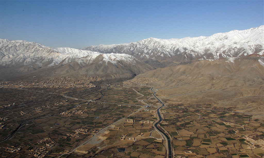 The Bagram Valley looking North for Bagram Airfield, Afghanistan. Photo by David Elmore of the United States of America.